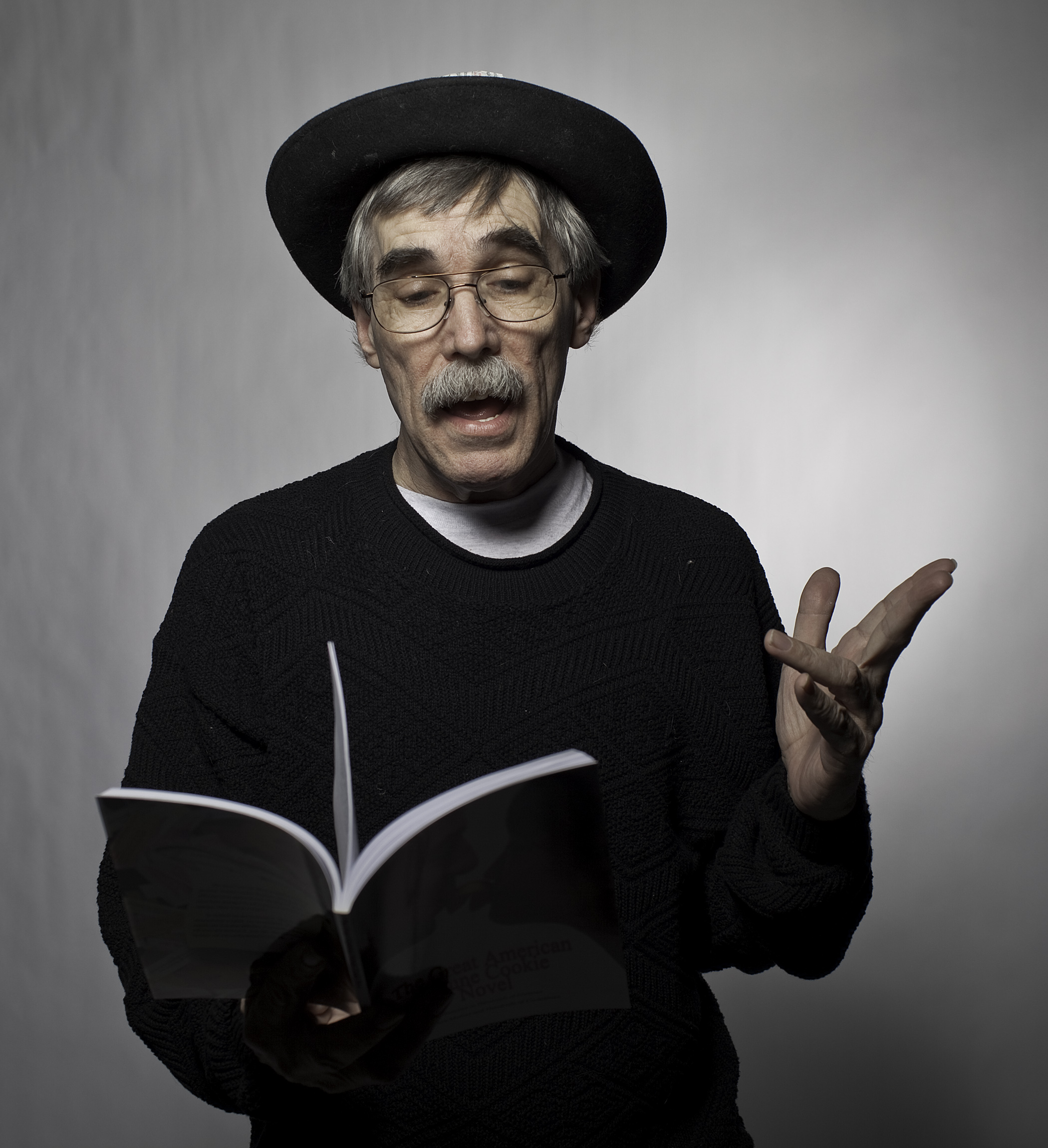 Dave Morice Portrait